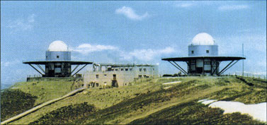 Maidanak Observatory on top of Mount Maidanak (~ 2000 m), Uzbekistan